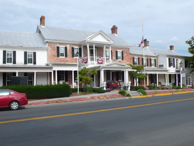 The Wayside Inn in Middletown, Virginia. Operating since 1797, it claims to be the oldest operating motor inn in America.